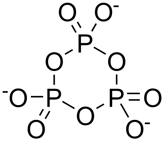 chemical structure of trimetaphosphate anion